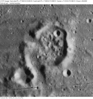 LO-IV-096H The 3-km crater on the northern floor of Burnham is Burnham K. 4-km Burnham L is just outside the rim at 5 o’clock and the less regular 9-km Burnham F is at 7 o’clock.